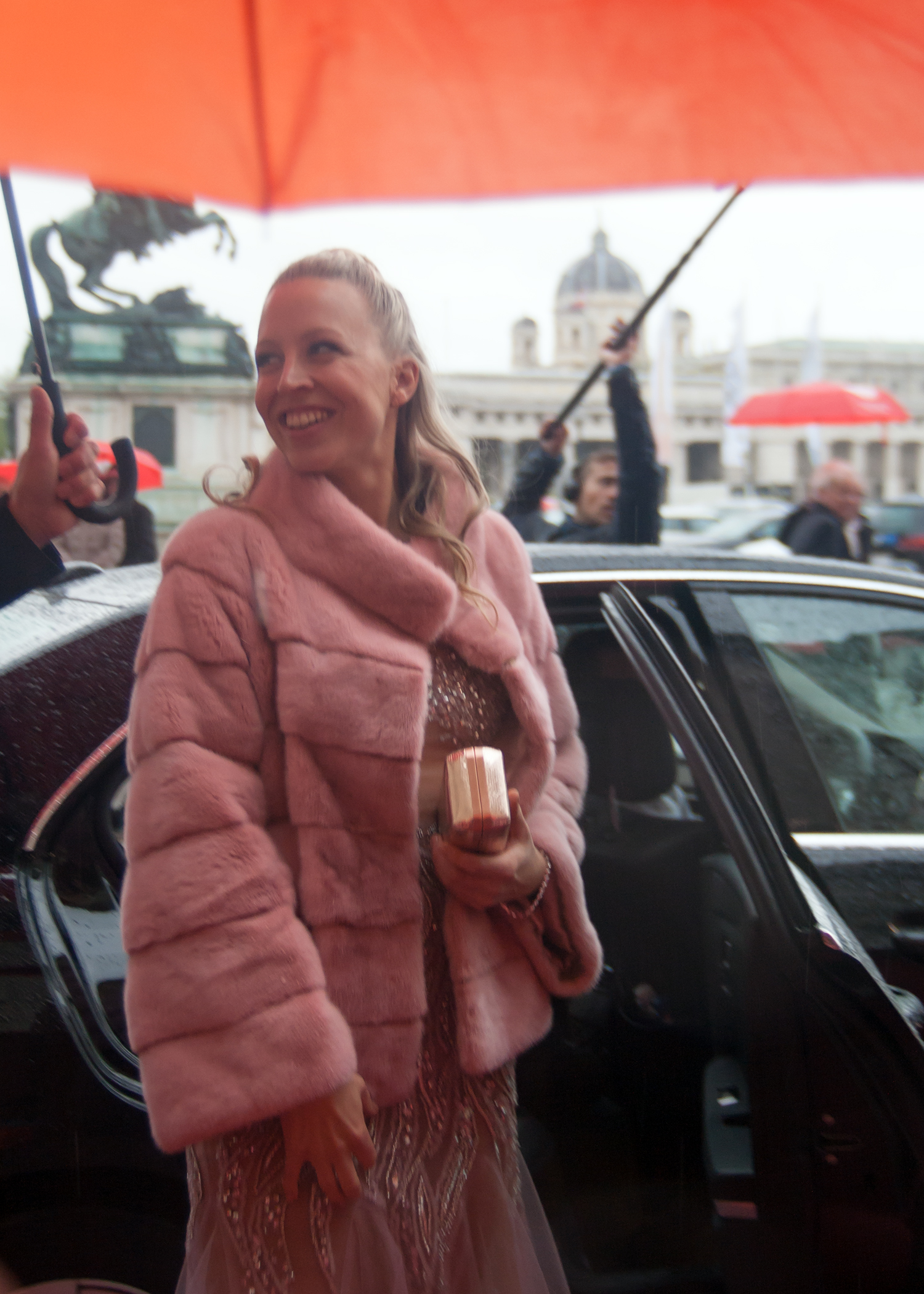 The arrival of Nina Proll on the red carpet of the Romy TV awards 2017 at Hofburg Palace in Vienna, Austria, which was also filmed for her movie Anna Fucking Molnar.